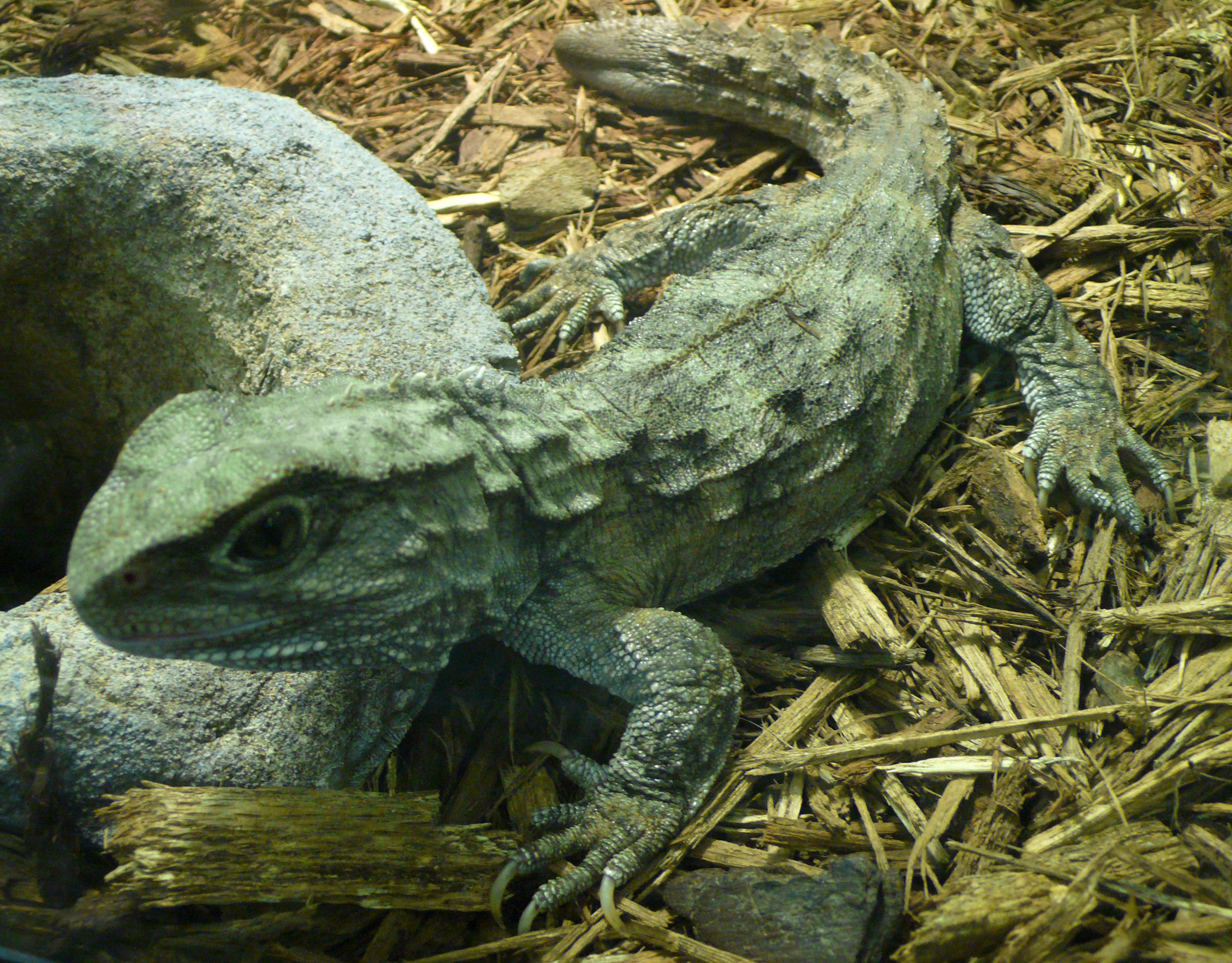 Tuatara (Sphenodon punctatus)